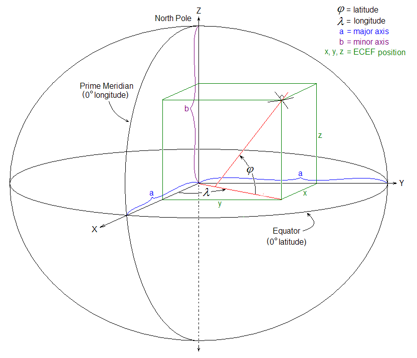 Earth Centered, Earth Fixed coordinates in relation to latitude and longitude.